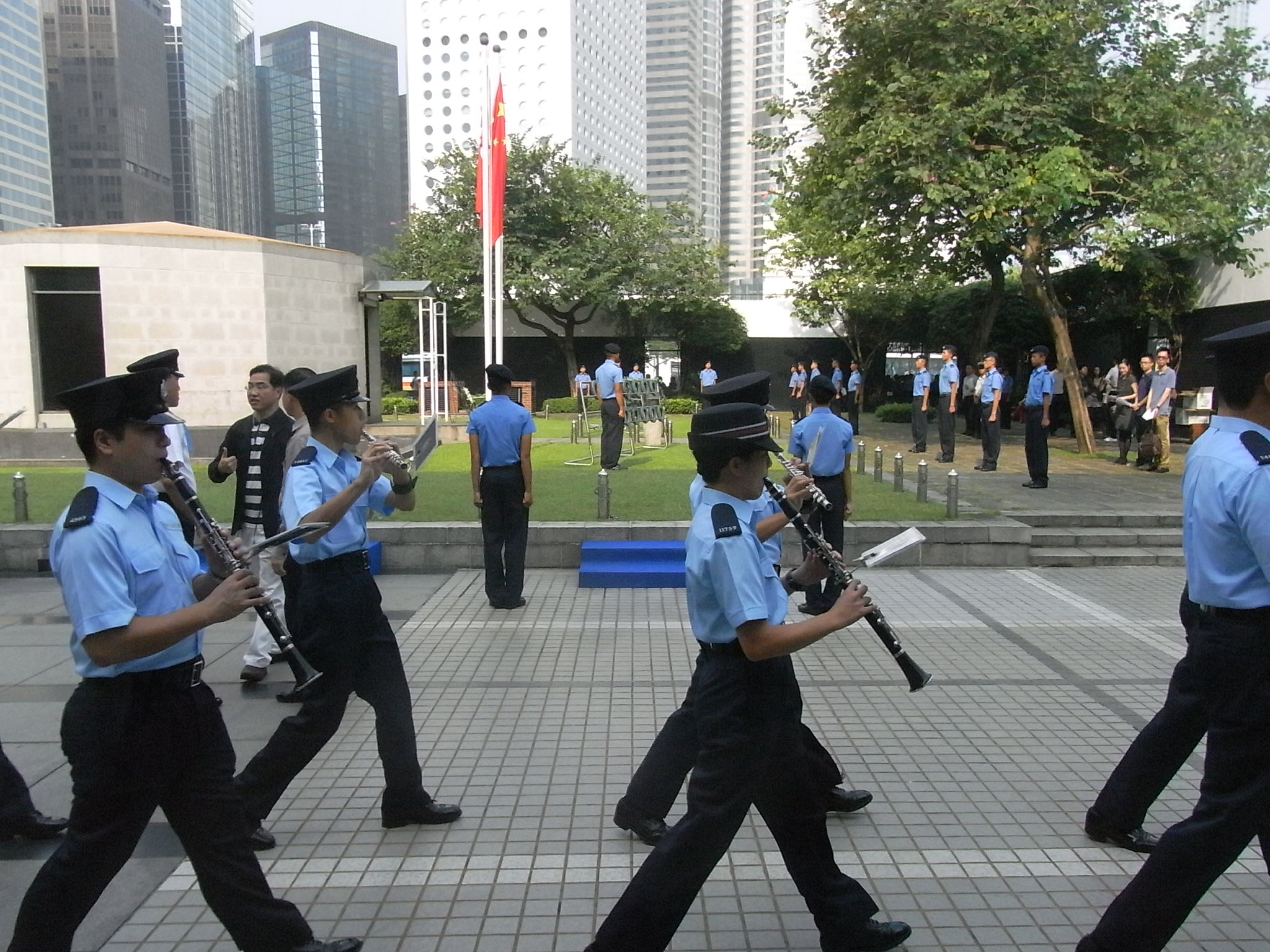 香港島 中環 愛丁堡廣場 2012年10月14日上午, 香港大會堂紀念花園, Hong Kong City Hall Memorial Garden, Edinburgh Place, Central, Hong Kong